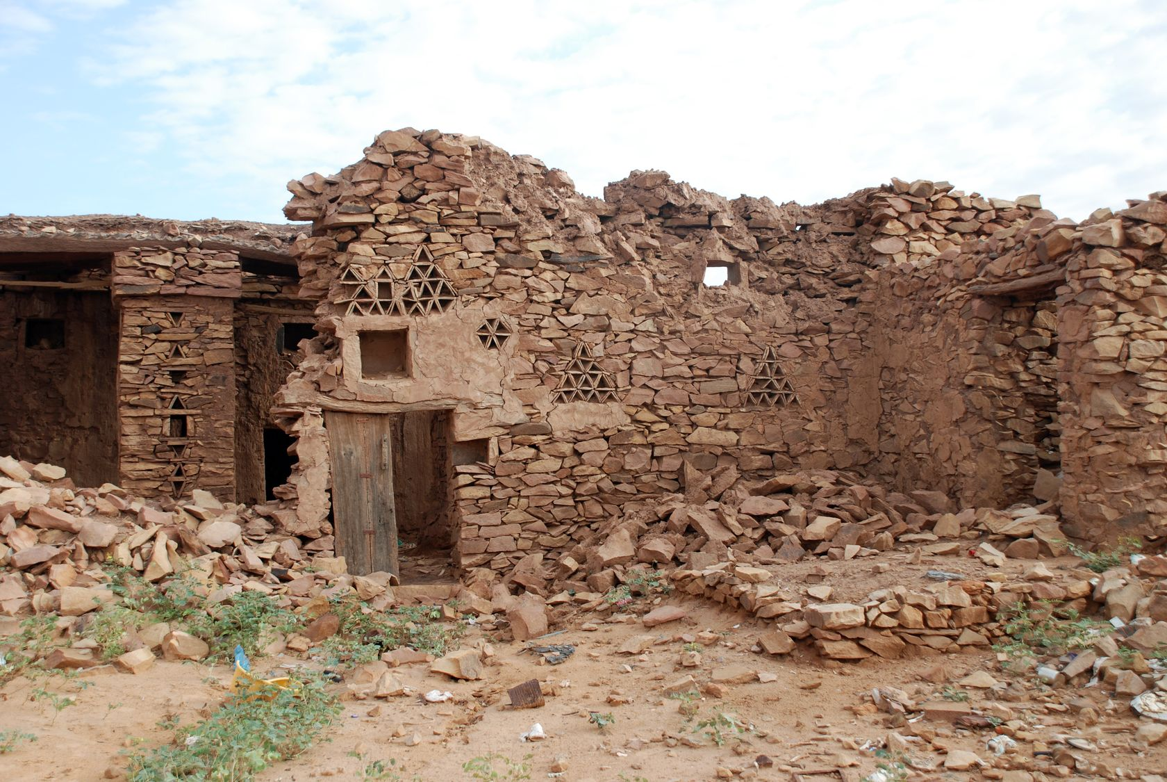 Tidjikja, Mauritania, old wall decoration